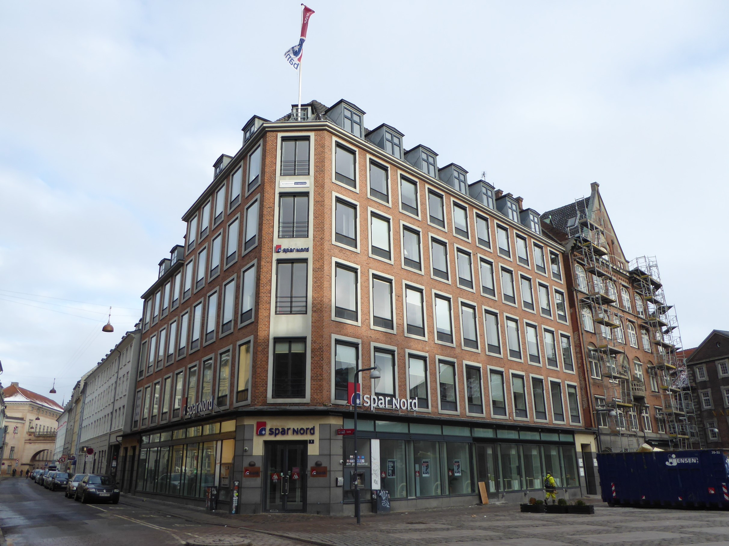 Building with a Spar Nord Bank at the corner of Lavendelstræde and Regnbuepladsen in Indre By in Copenhagen.